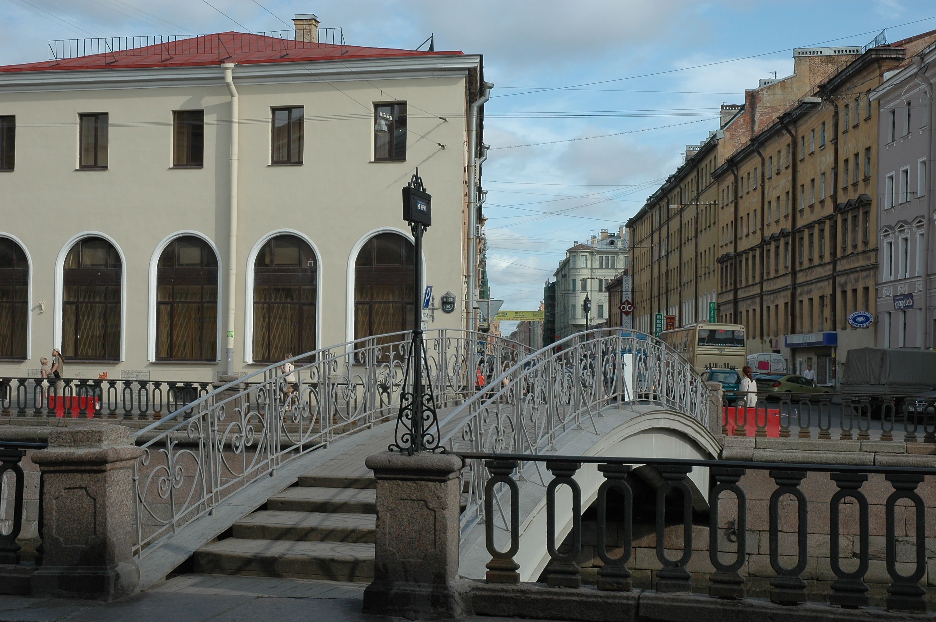 Muchnoi bridge across Griboedov Canal in St Petersburg, Russia (perspective)